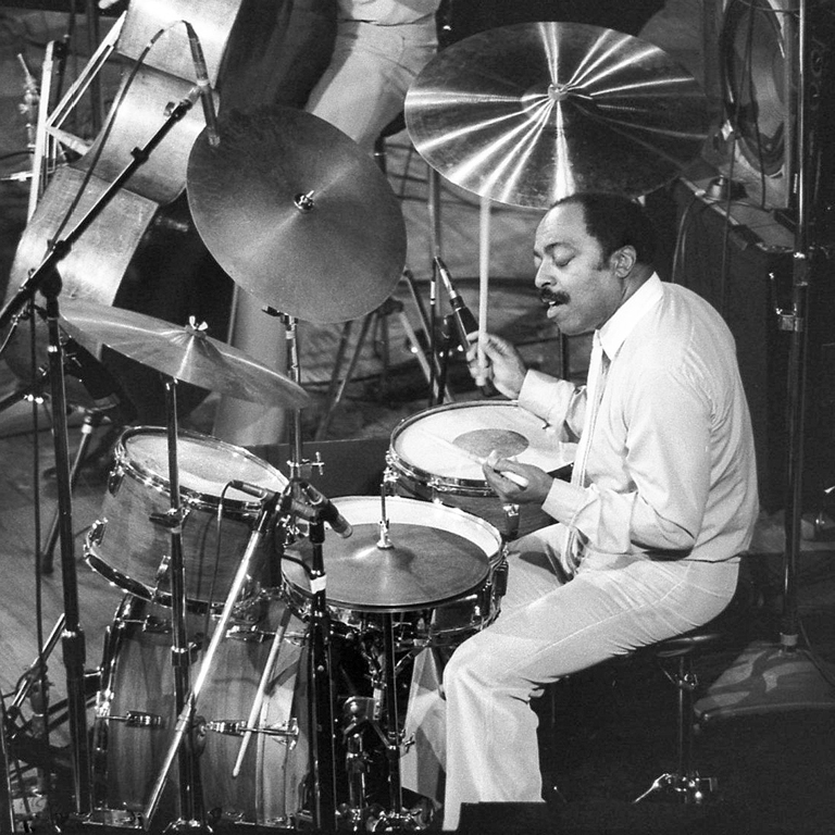 Roy Haynes at radio KJAZ Festival, Davies Symony Hall, San Francisco 1981. Photo by Brian McMillen /